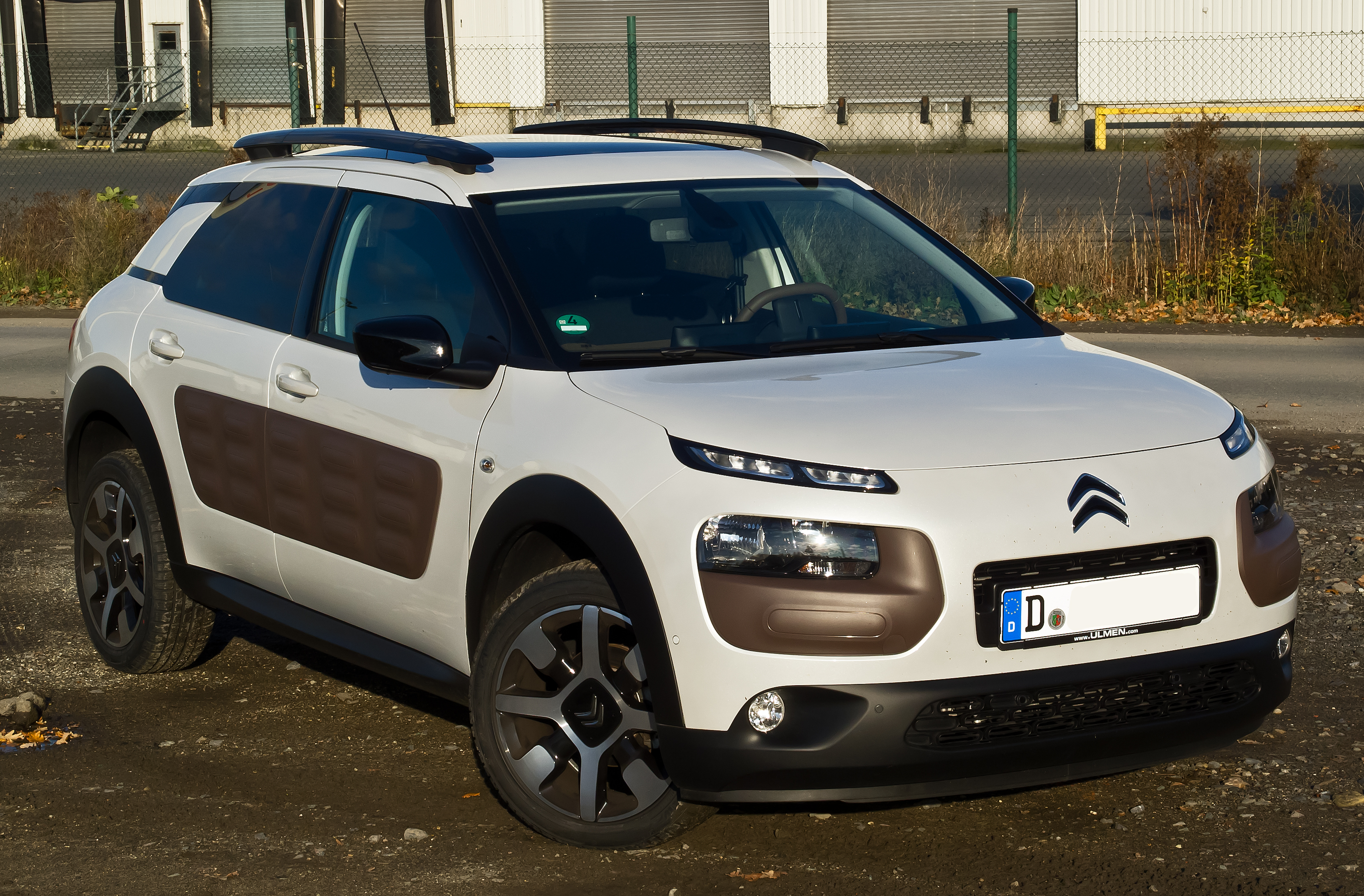 Citroën C4 Cactus BlueHDi 100 Shine Edition